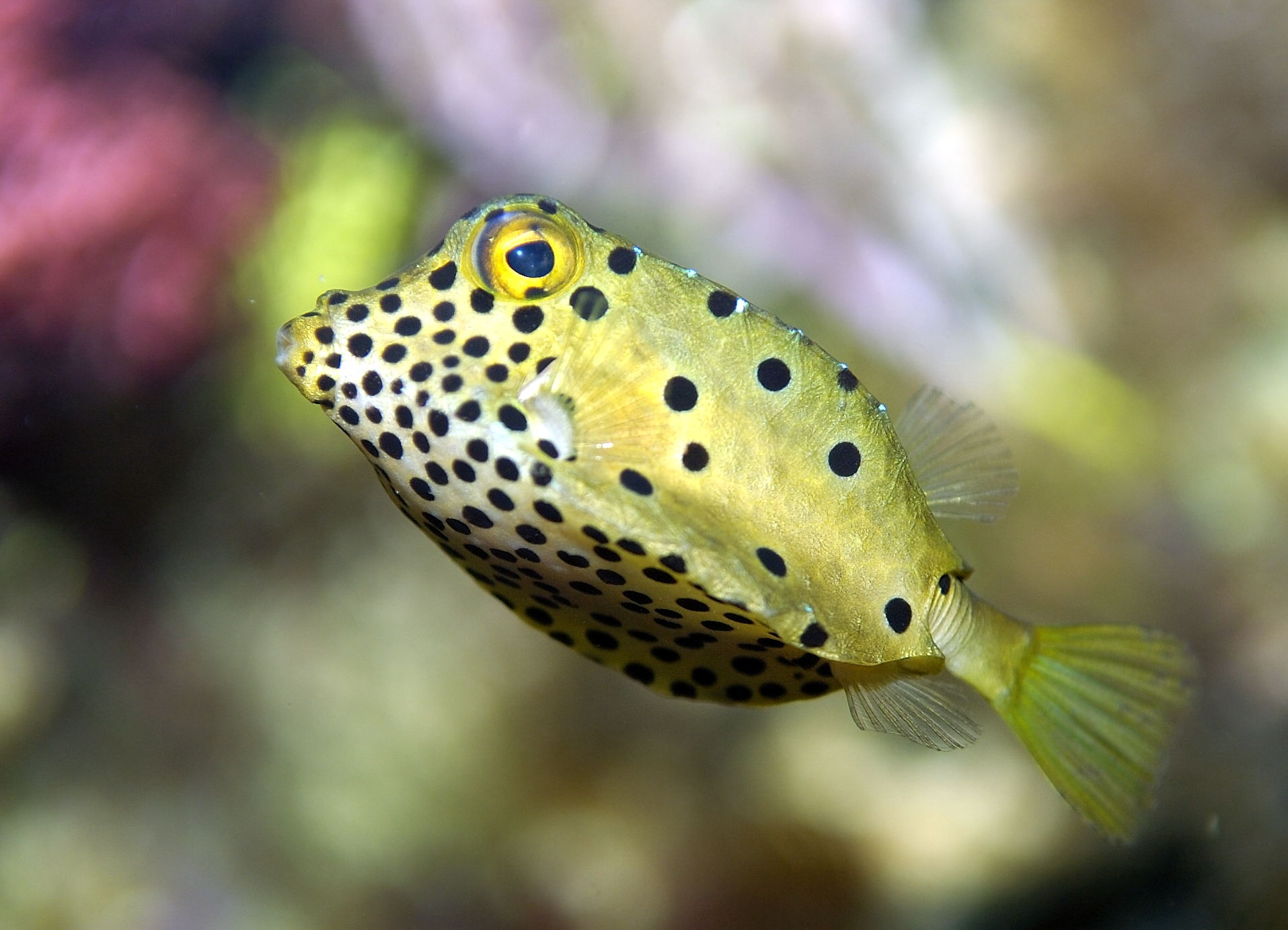 Austria, Vienna, Tiergarten Schönbrunn